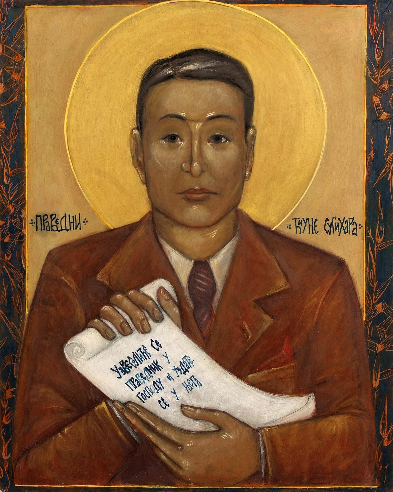 Chiune Sugihara depicted on Eastern Orthodox icon.